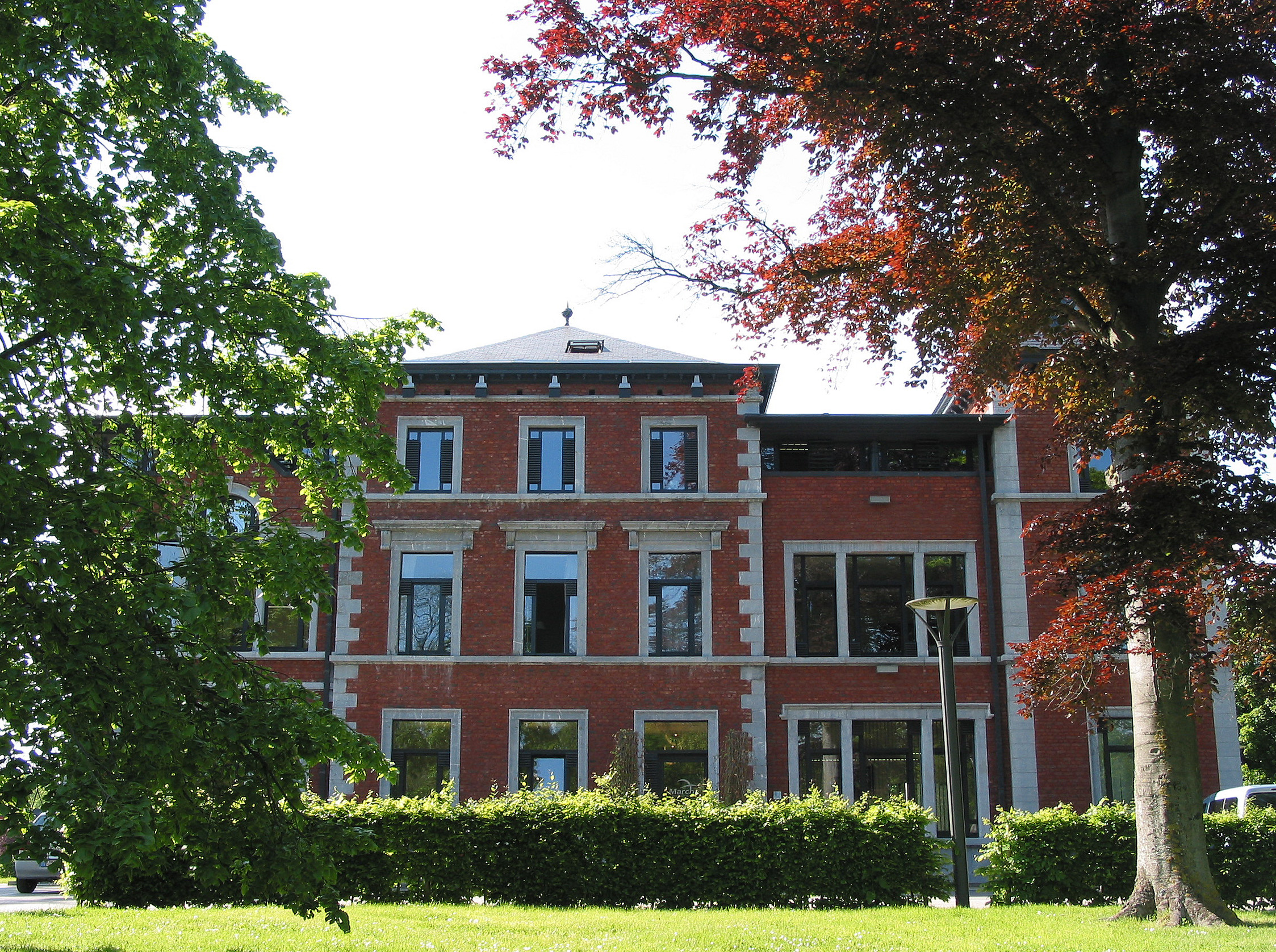 Marche-en-Famenne (Belgium), the town hall.